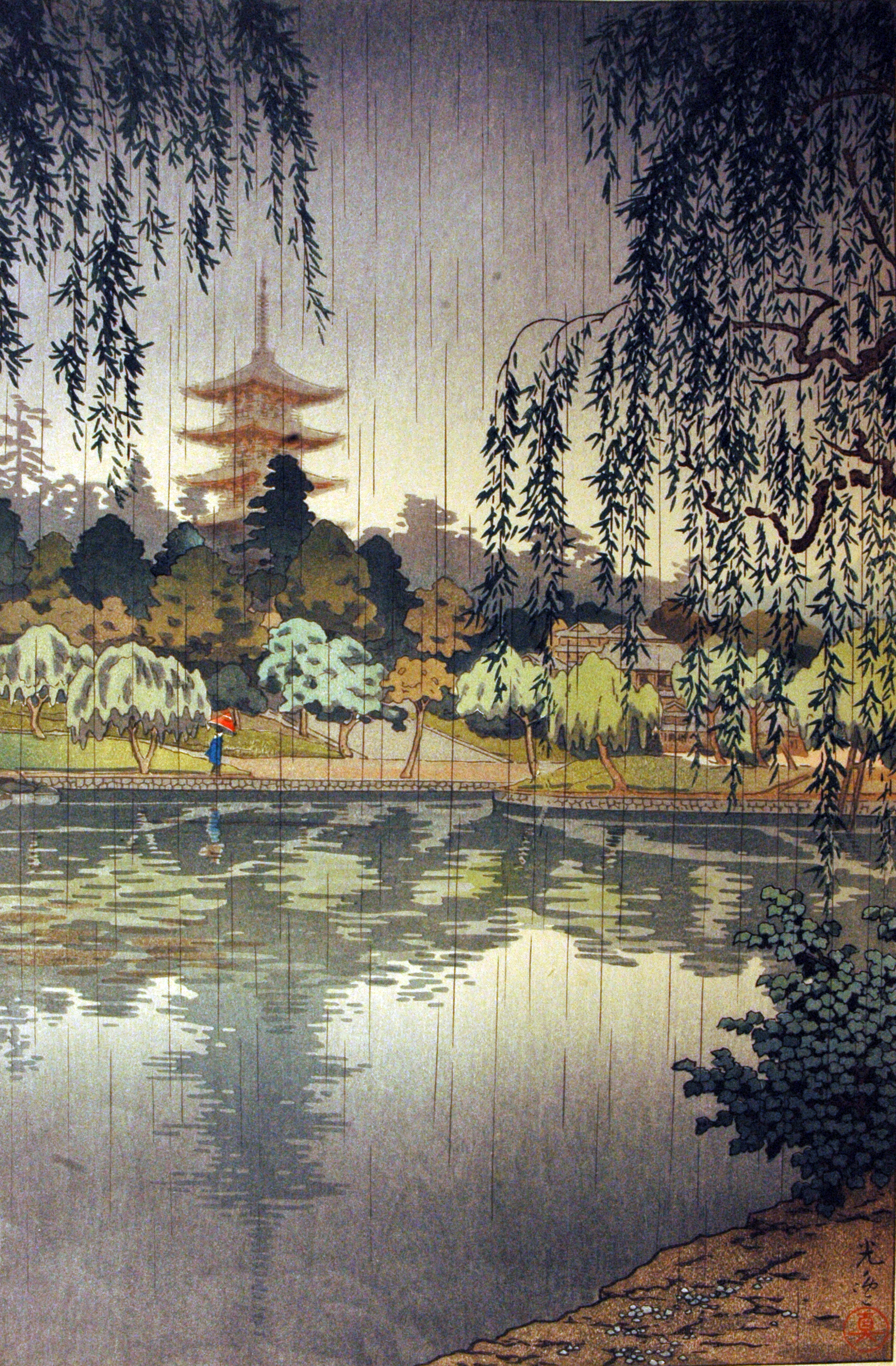 Accession Number: 2008.82 Display Artist: Koitsu Tsuchiya Display Title: Rain at Kofukuji Temple Creation Date: Jun-37 Height: 15 1/2 in. Width: 10 3/16 in. Display Dimensions: 15 1/2 in. x 10 3/16 in. (39.37 cm x 25.88 cm) Publisher: Doi Teiichi Credit Line: "Gift of Captain George B. Powell, Jr., JAGC, USN" Collection: The San Diego Museum of Art